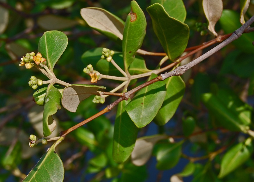 Avicennia marina leaves and inflorescence, Muara Angke, Jakarta, Indonesia